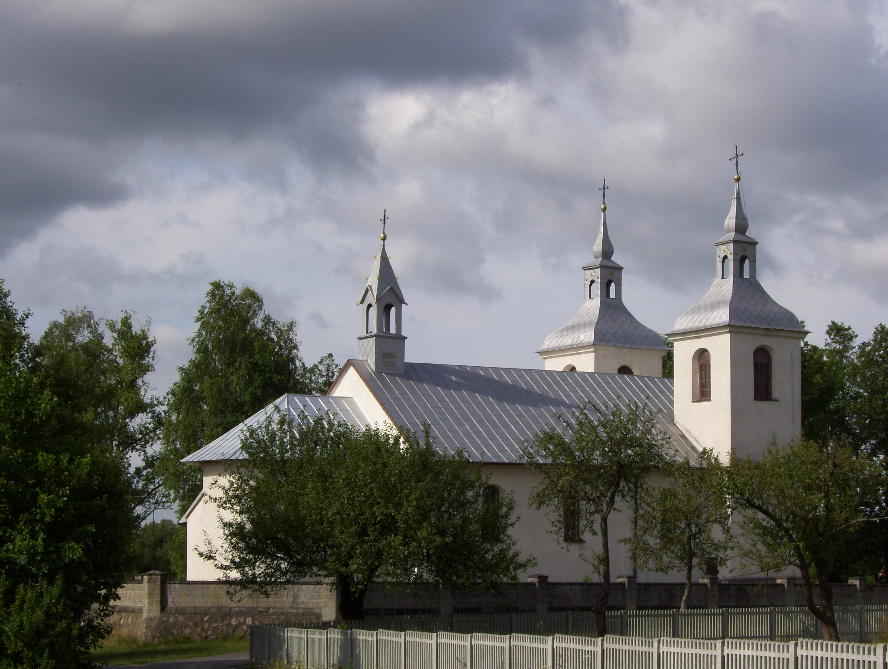 The Church in the Żeleźnica, near Przedbórz